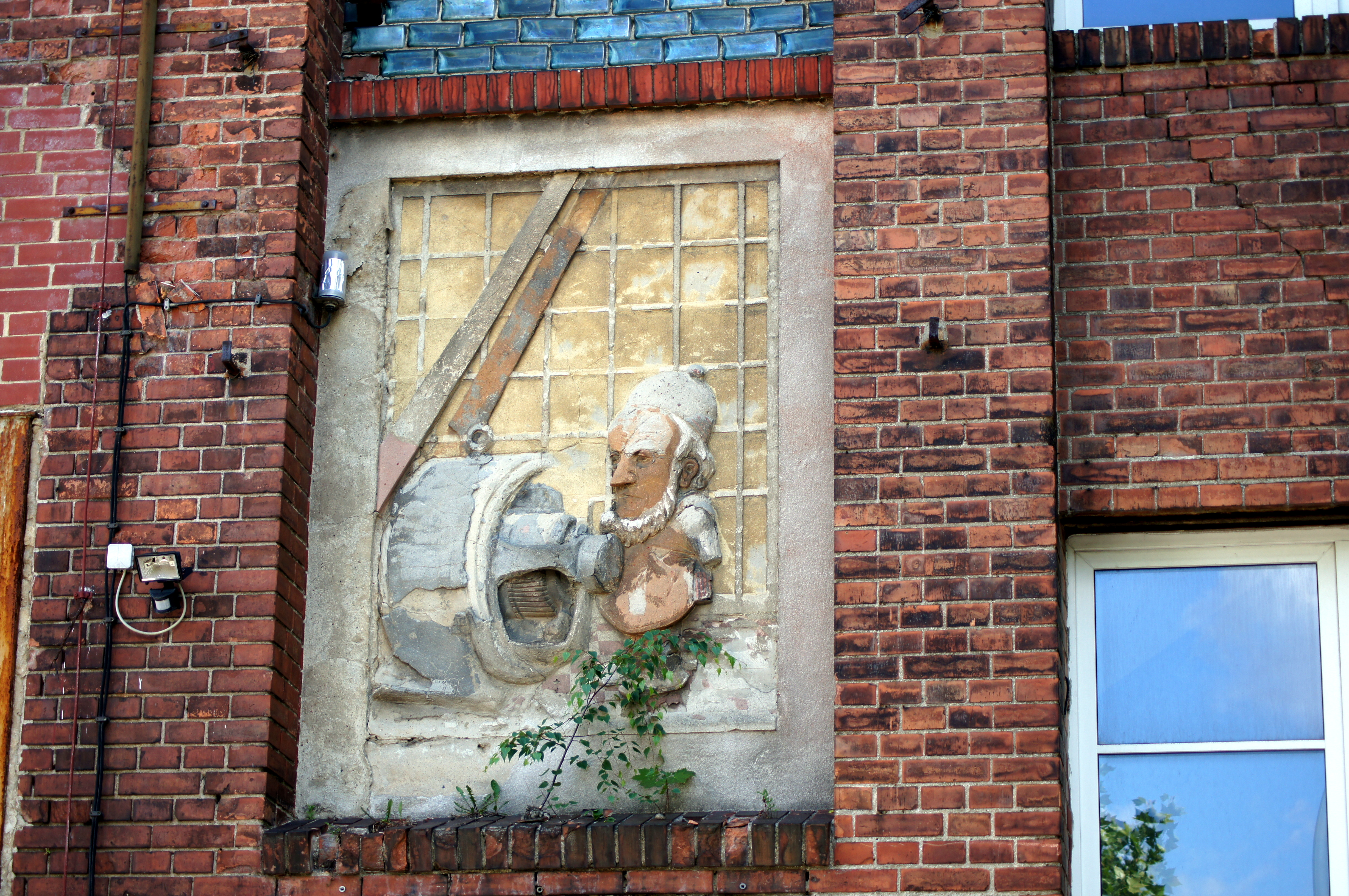 Ziehl-Abegg-Electricity Company in Berlin-Weissensee, Germany